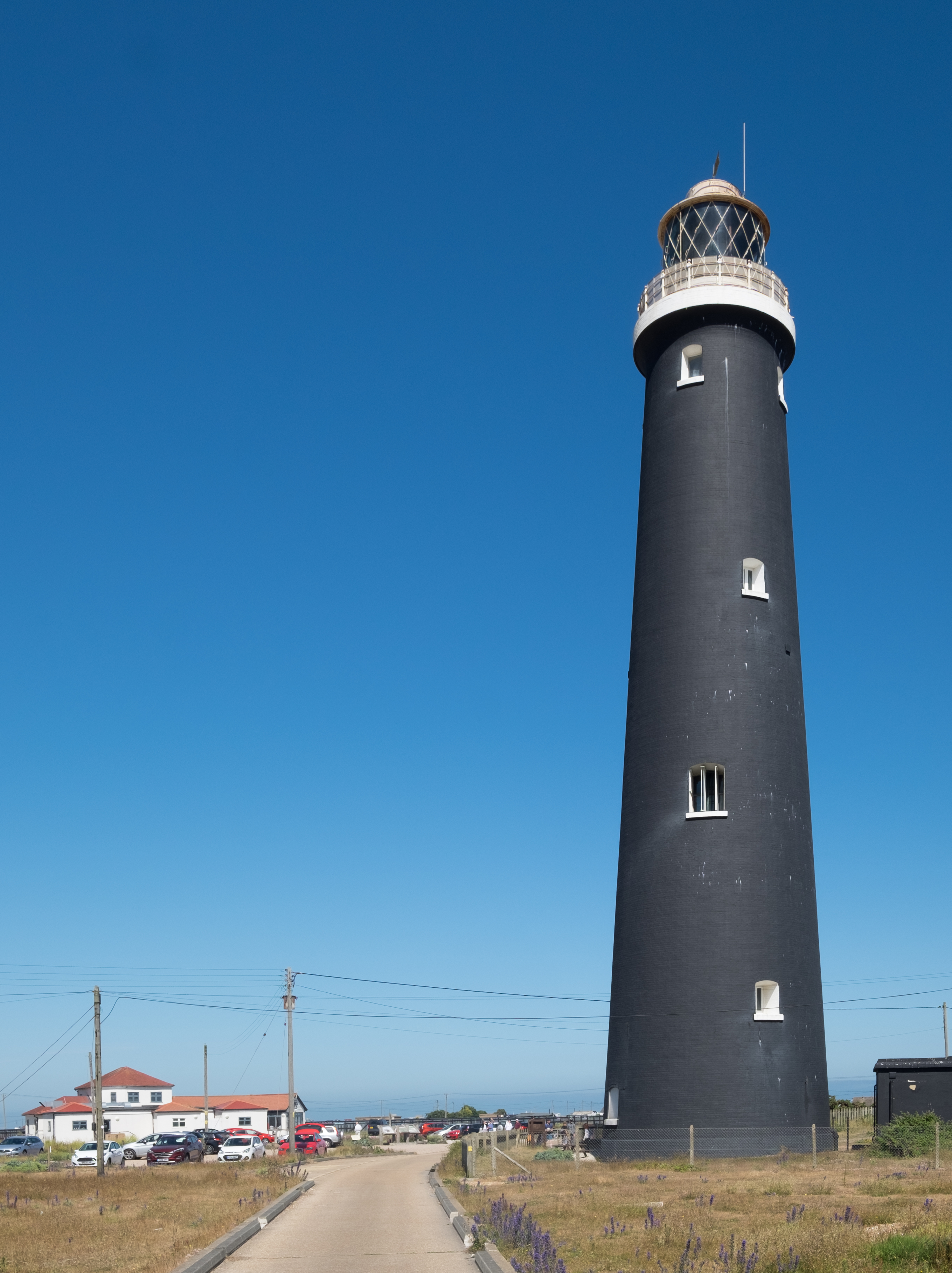 Old Dungeness Lighthouse on the Dungeness headland, Kent. This disused lighthouse, built between 1901 and 1904, is a grade II listed building in England.